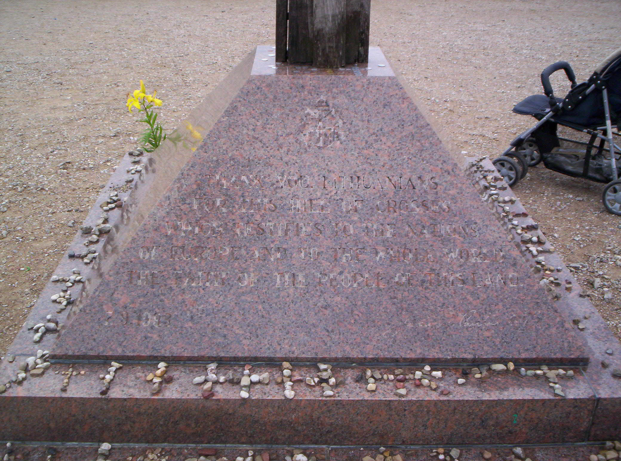 This picture shows the carved-in stone at the Hill of Crosses in Lithuania. This stone contains the words of pope John Paul II.